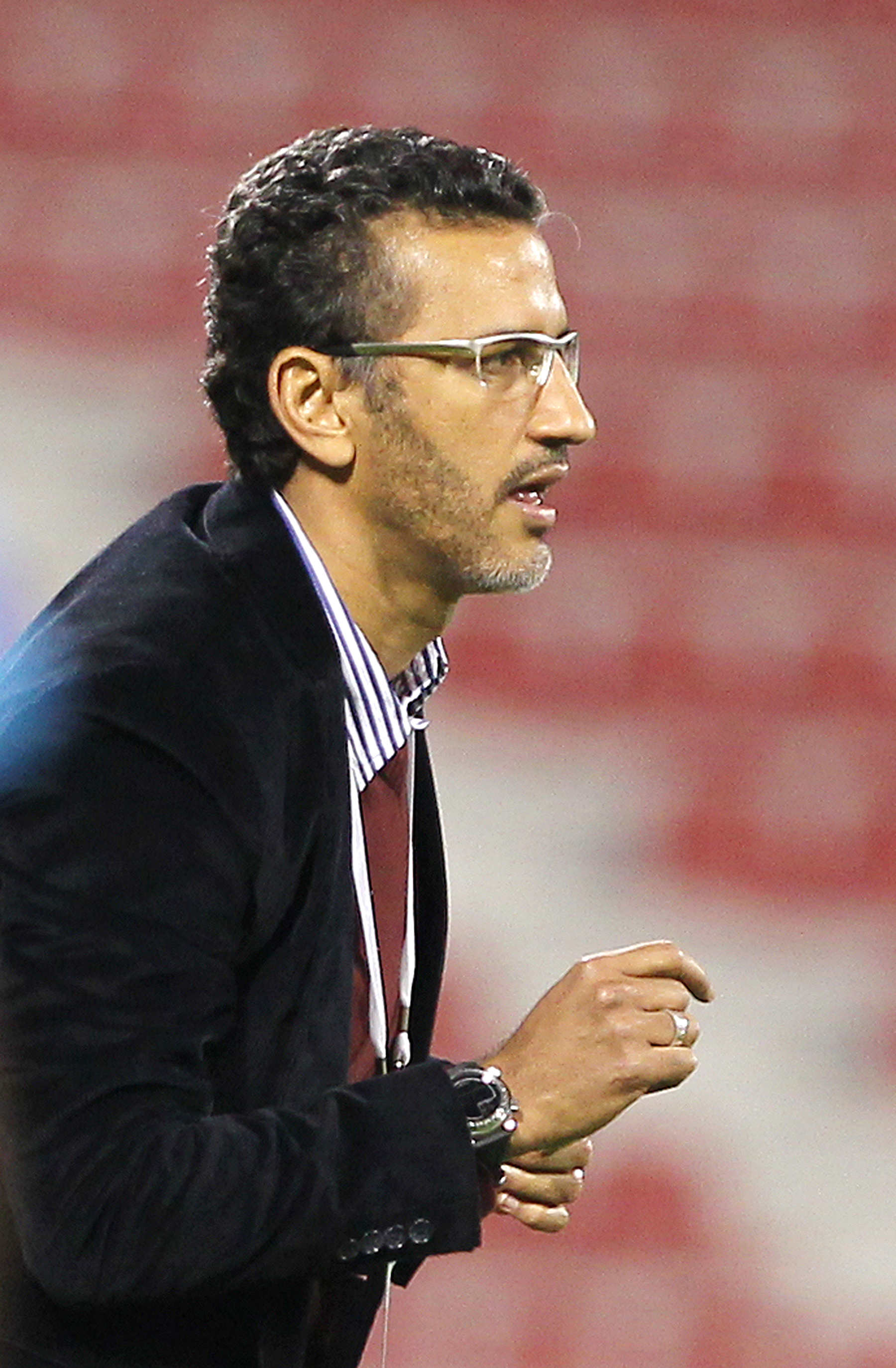 El Jaish's Brazilian coach Péricles Chamusca gestures during a Qatar Stars League match.